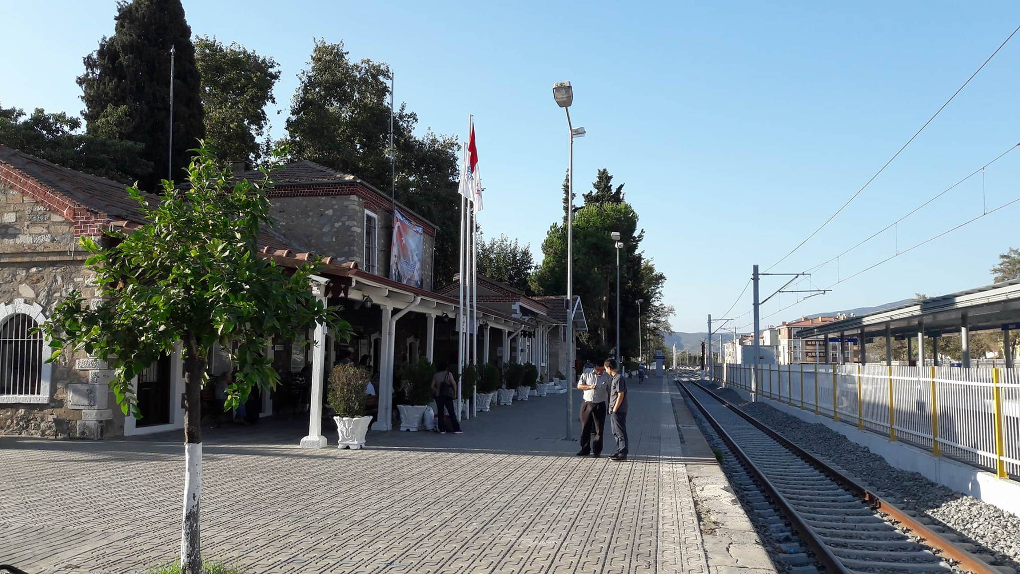 Selcuk station in September 2017